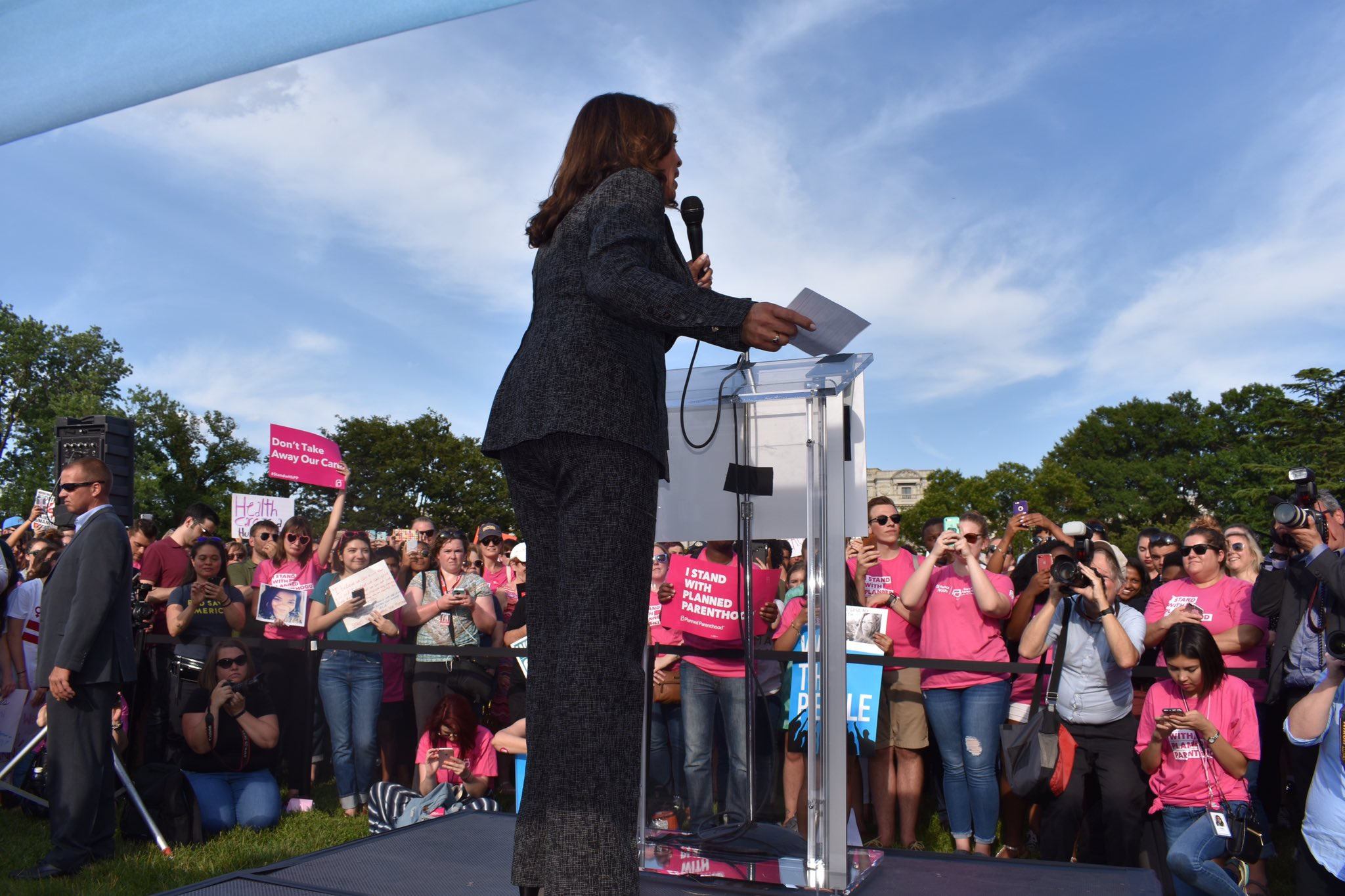 Americans won't "lose" their health care. It's not like we left it on the bus. The Republicans are taking it from us. Don't take our stuff.